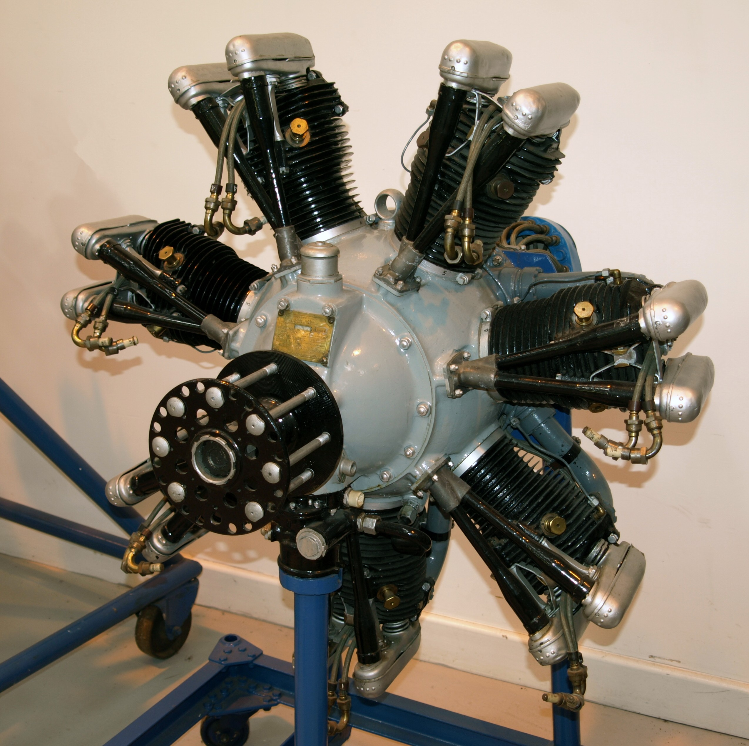 Armstrong Siddeley Civet aircraft radial engine at the Royal Air Force Museum, Cosford